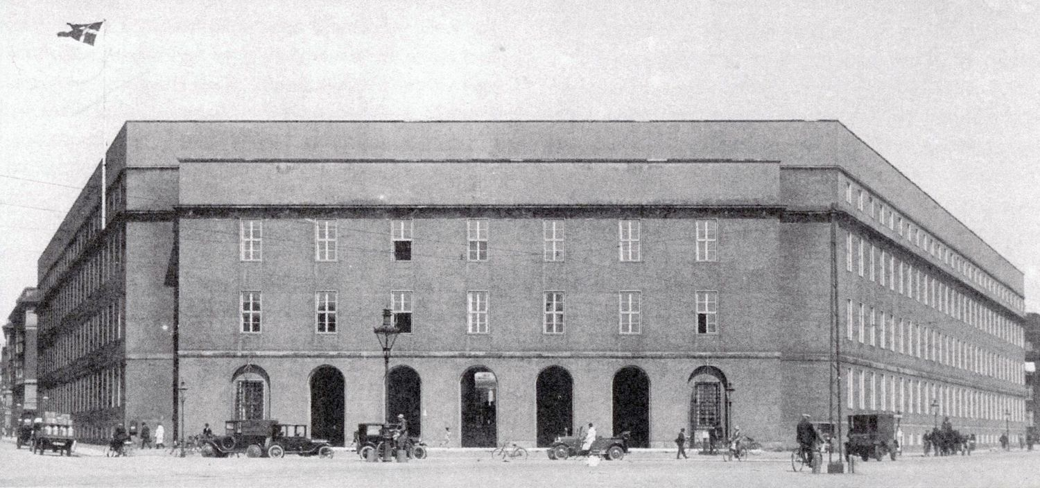 Vopenhagen Police Headquarters in Copenhagen, Denmark